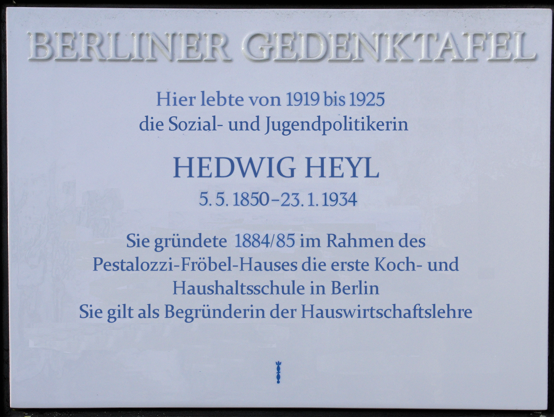 Berlin memorial plaque, Hedwig Heyl, Ulmenallee 30, Berlin-Westend, Germany Koordinate:52°31′2″N 13°16′10″E / 52.51722°N 13.26944°E